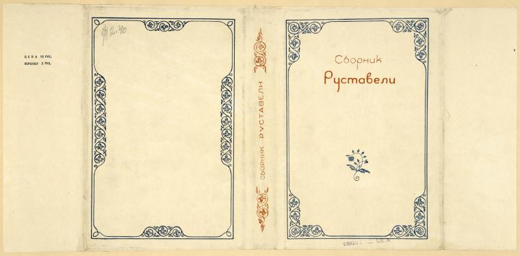 Scrap book of Russian bookjackets, 1917-1942 (published 1942). Rustaveli. Sbornik. (Rustaveli. A Collection)